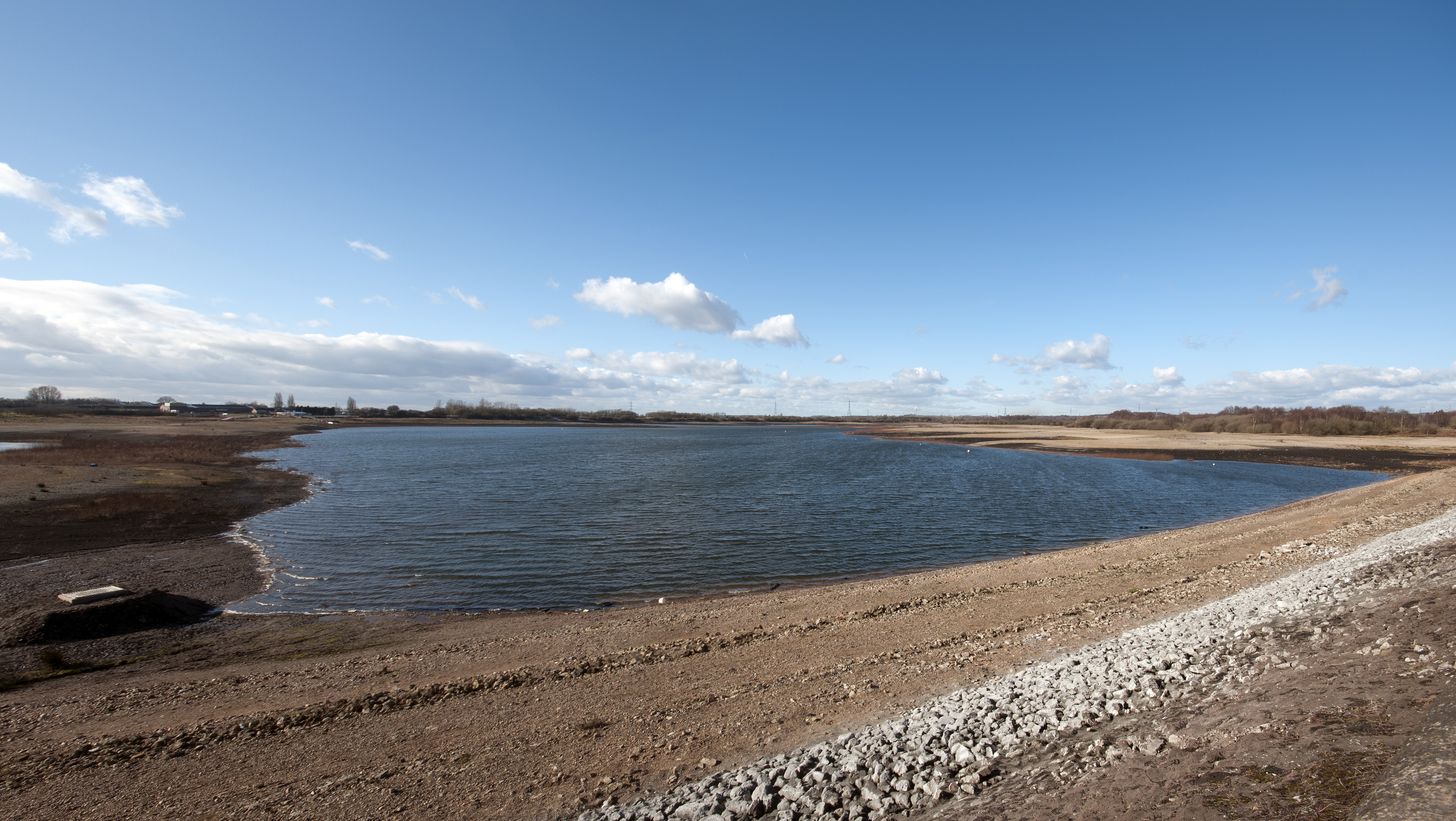 Chasewater Reservoir, Staffordshire, UK. Photo taken looking west from the dam.